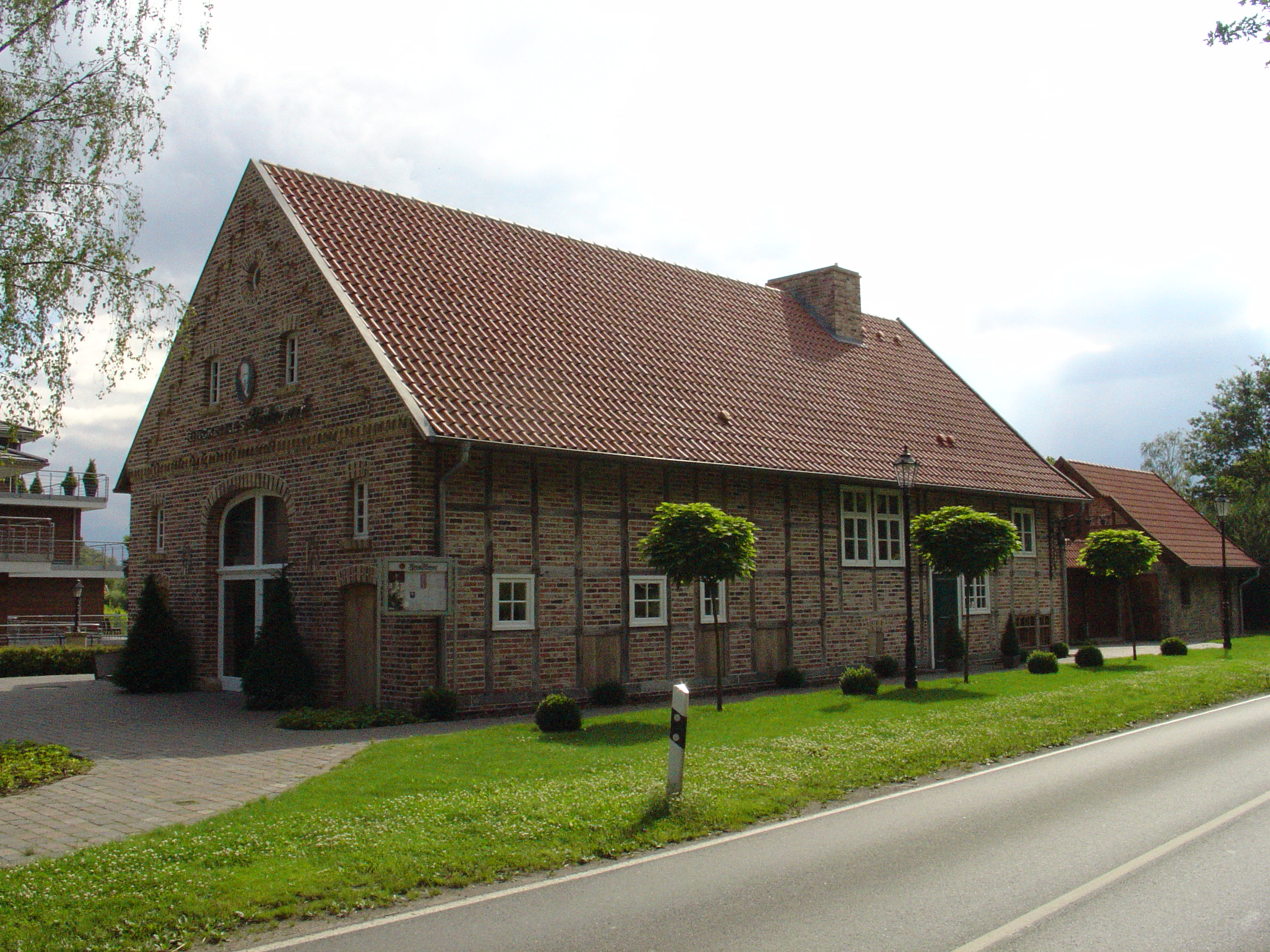 House where Johann Christoph Rincklake is born. The Building stood in Harsewinkel and was displaced to Marienfeld. Today it is a Restaurant